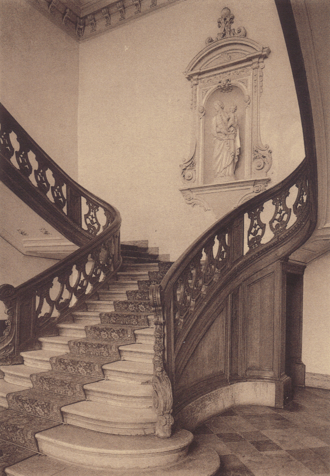 Bonne-Espérance Abbey, Vellereille-les-Brayeux (Belgium), the grand staircase (18th century).